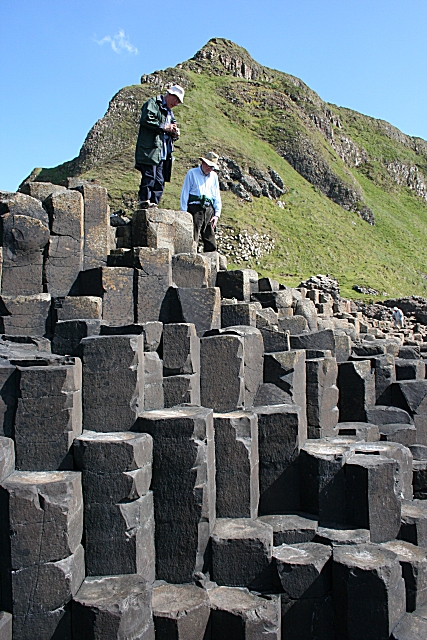 Aird Snout Looking up to the cliffs at Aird Snout from the columns of the Middle Causeway.